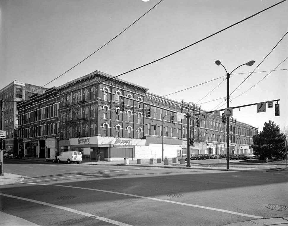 Northern and western sides of the Arcade Hotel, located on the southeastern corner of High Street and Fountain Avenue in downtown Springfield, Ohio, United States. Built in 1883, it was listed on the National Register of Historic Places in 1974. The site remains on the Register, even though the hotel has been destroyed.